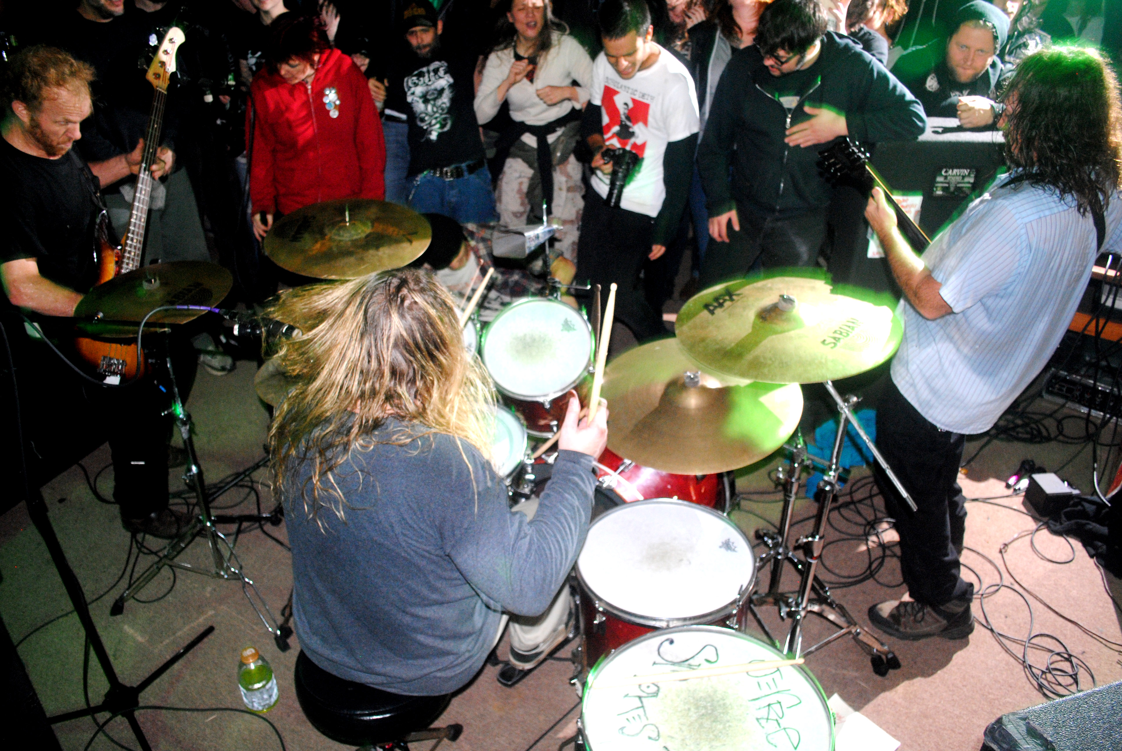 Corrosion of Conformity - Animosity Lineup 12-11-2010 - Secret House Show at Dreg’s Grotto, Raleigh, NC - by Will Butler